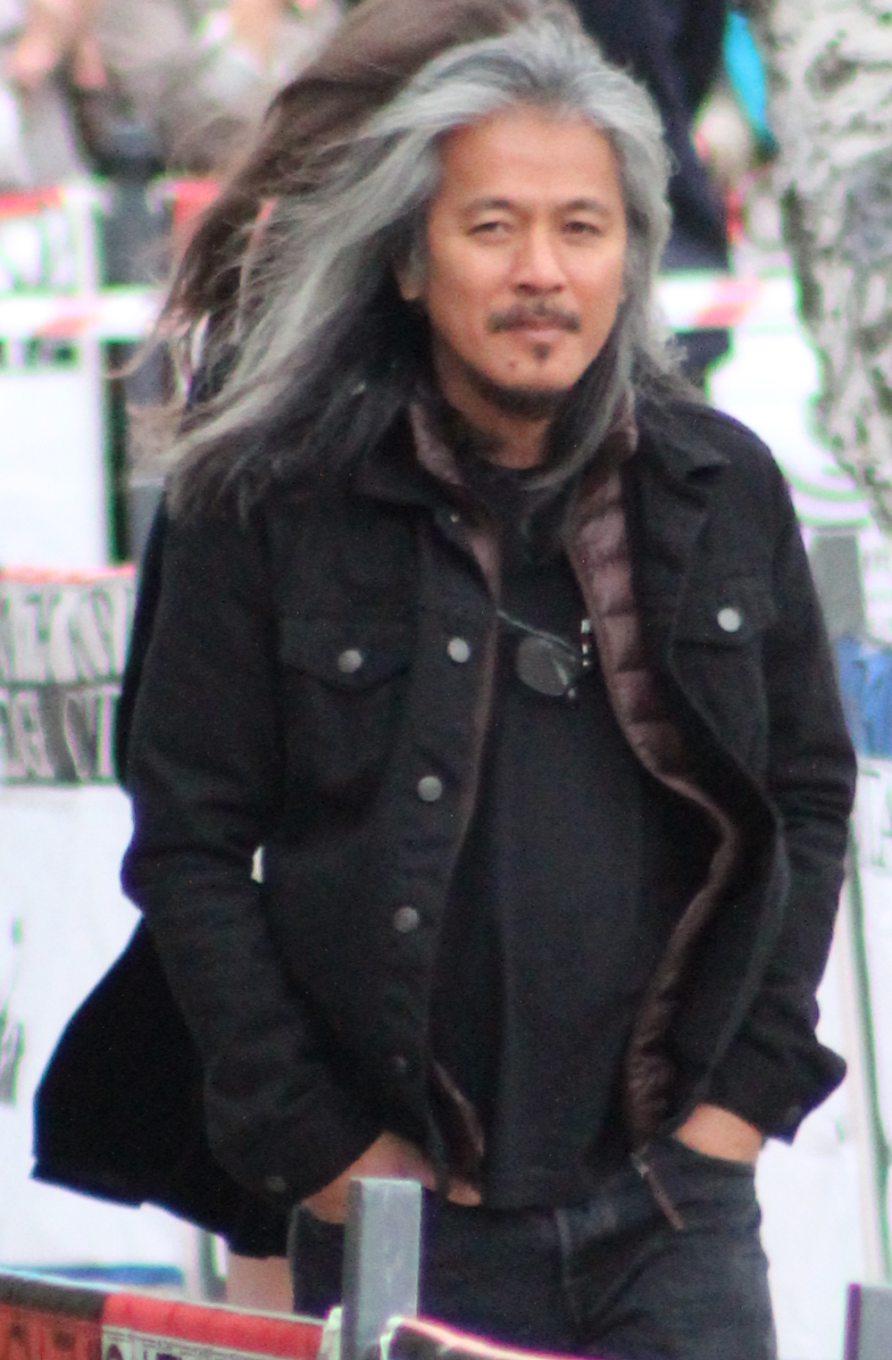 Lav Diaz at On the Edge Film Festival 2015 August 7